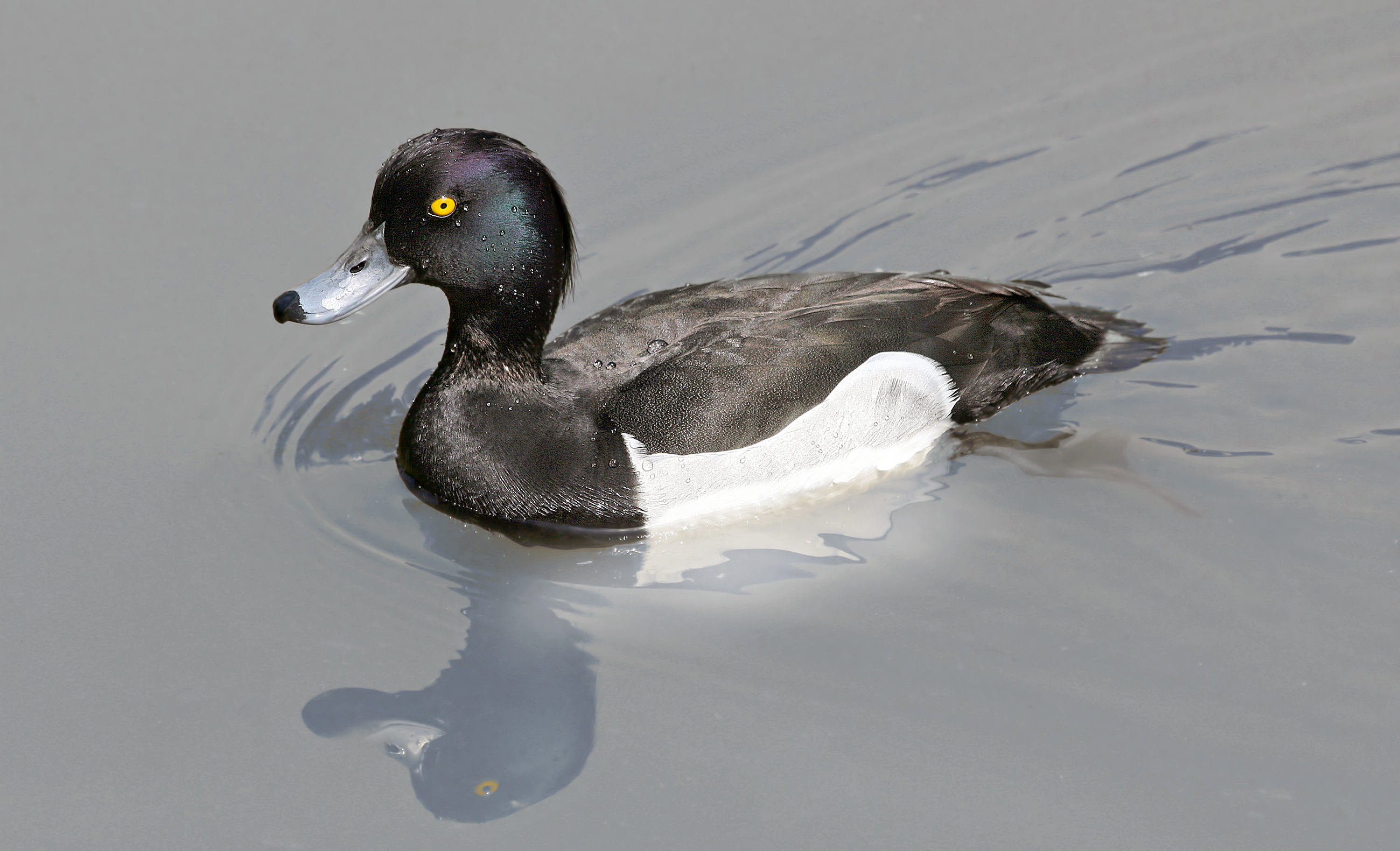 Tufted Duck